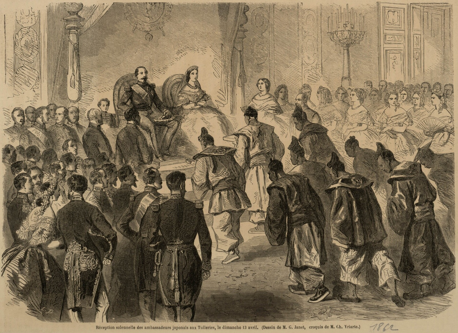 Solemn reception of the Japanese ambassadors to the Tuileries castle on Sunday, April 13, 1862.